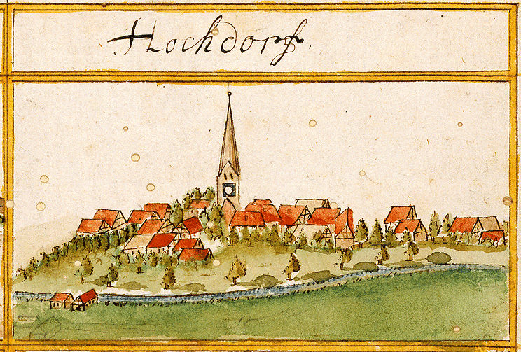 View of Hochdorf from the forest register books created by Andreas Kieser